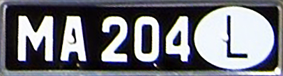 1966-1978 Luxemburg license plate "MA 204"